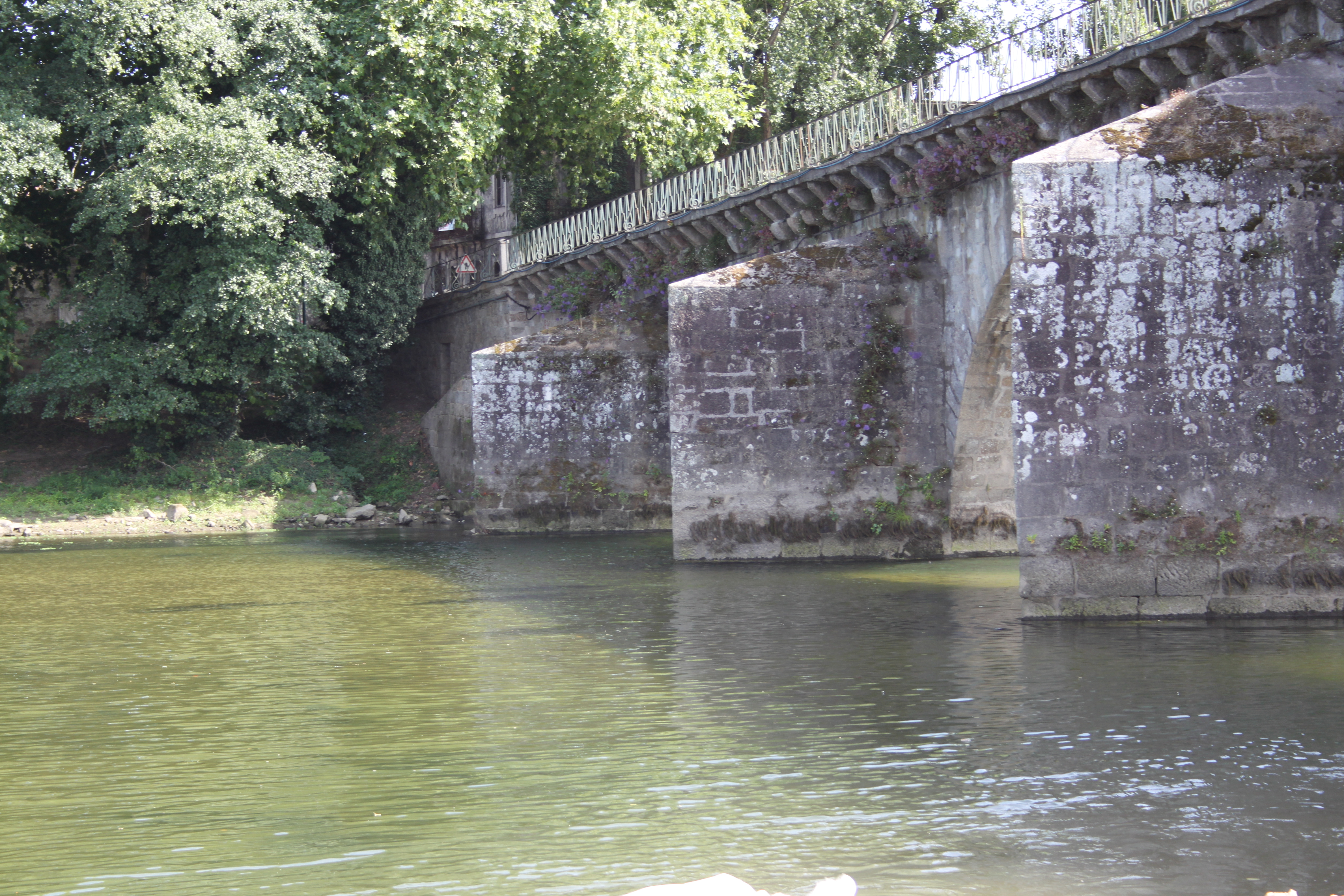 This file was uploaded for Wiki Loves Monuments in Portugal with the unique identifier 70616.